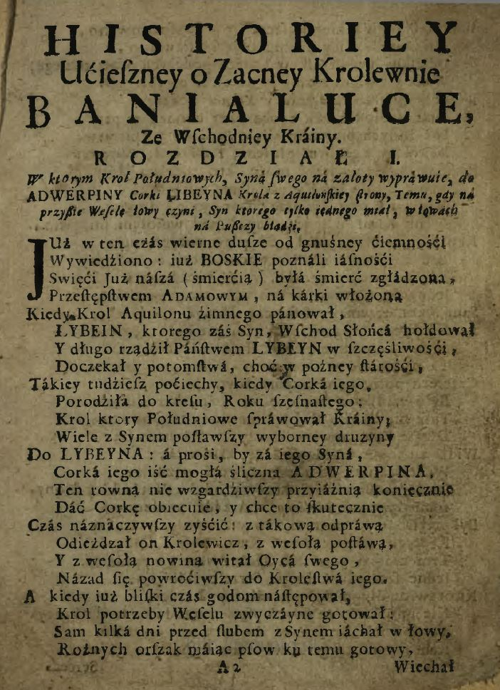 First page of Historia ucieszna o królewnie Banialuce from 1736 book Antipasty Małzenskie pubilshed in Krakow.